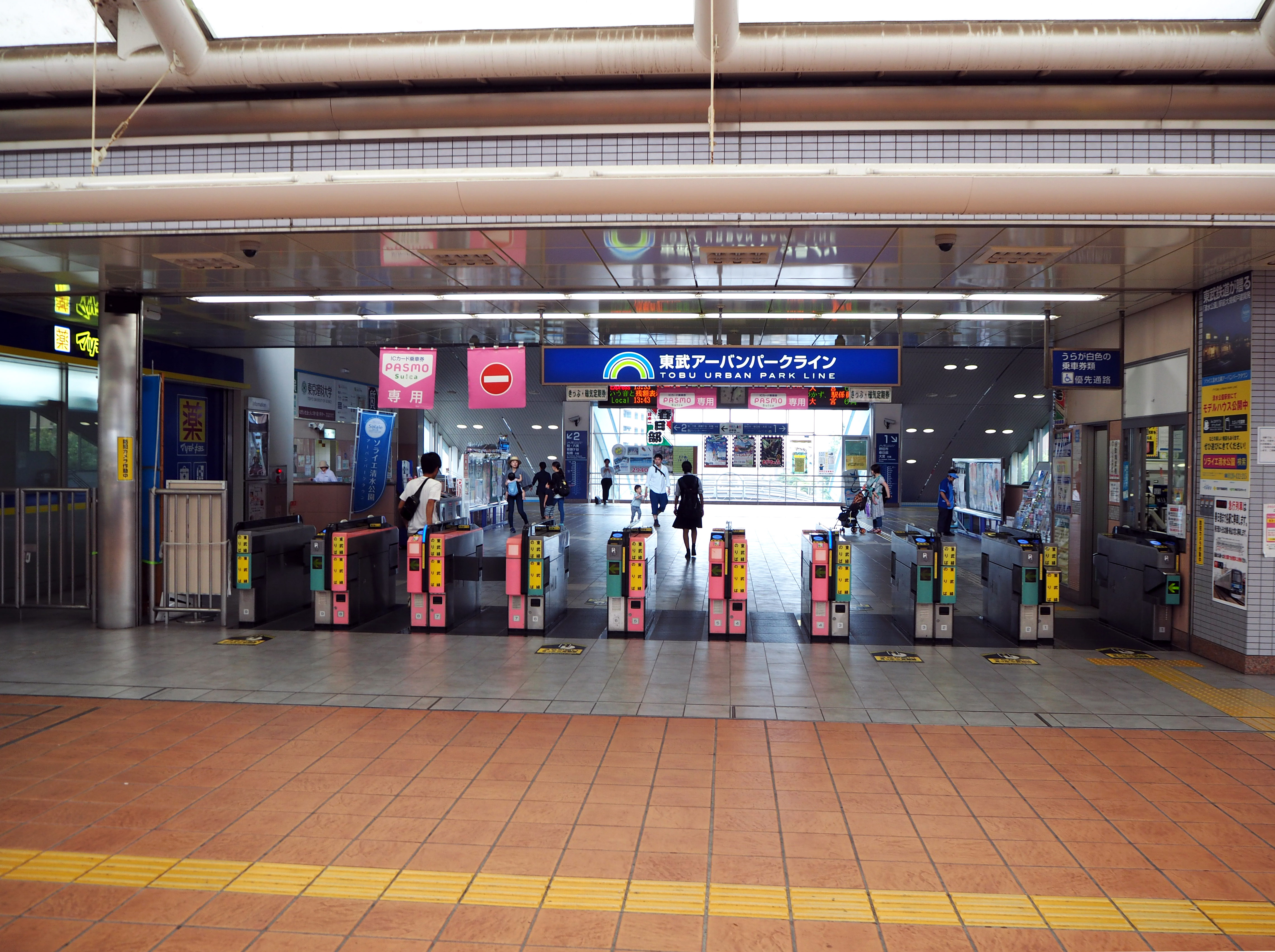 Ticket barriers of Nagareyama-Ōtakanomori Station(Tobu)